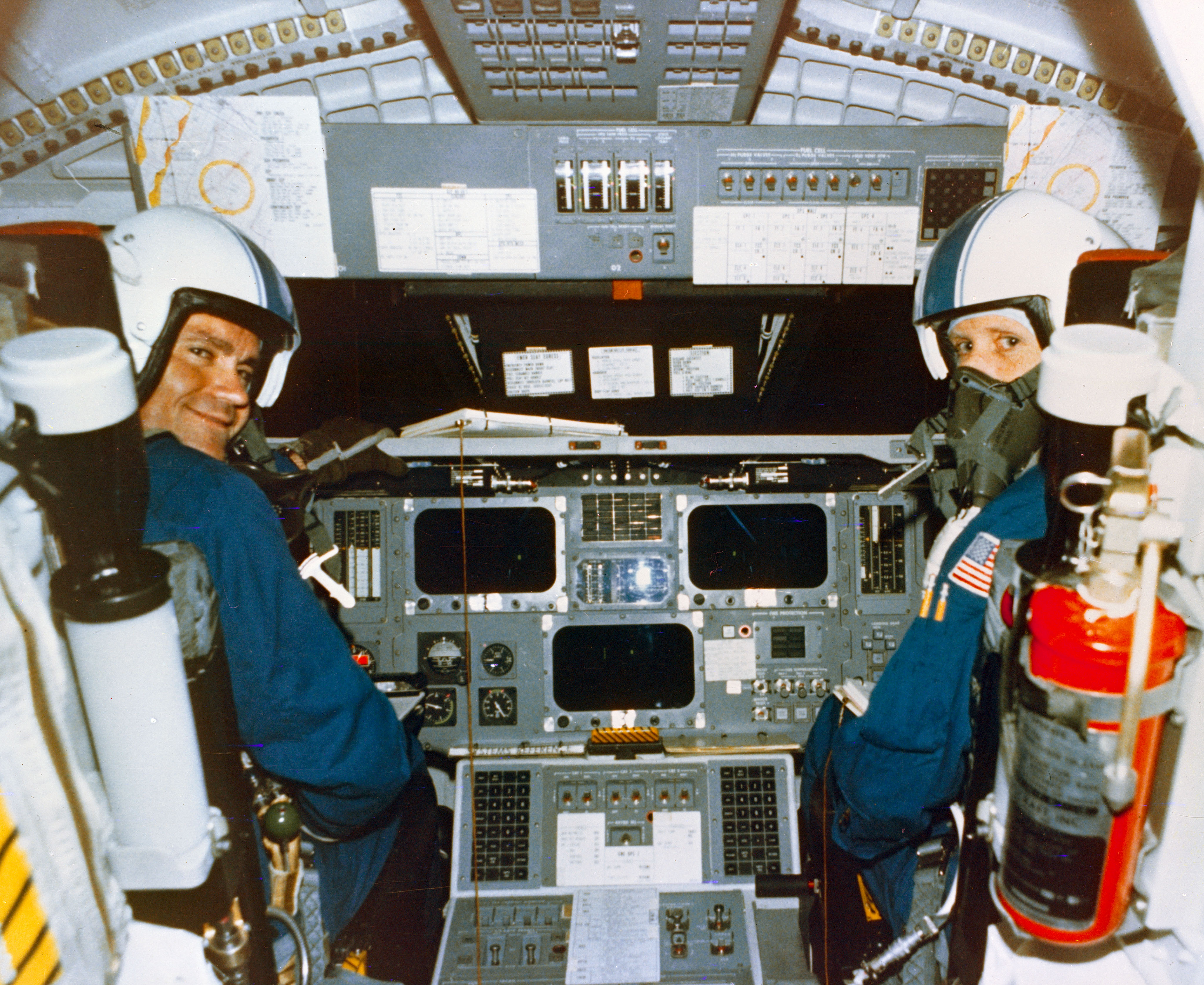 Astronauts Fred W. Haise Jr., commander, left, and C. Gordon Fullerton in the cockpit of the Space shuttle Orbiter 101 "Enterprise" prior to the fifth and final free flight in the Approach and Landing Test (ALT) series, from Dryden Flight Research Center (DFRC).